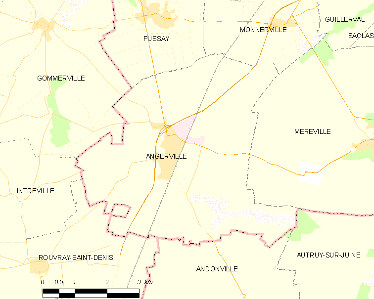 Map of French municipality Angerville